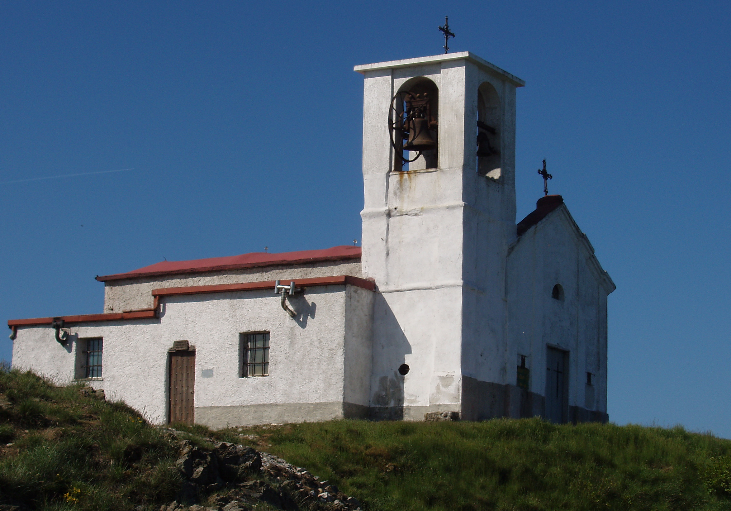 Nostra Signora di Caravaggio church on Monte Tobbio (Ligurian Apennine, AL, Italy)